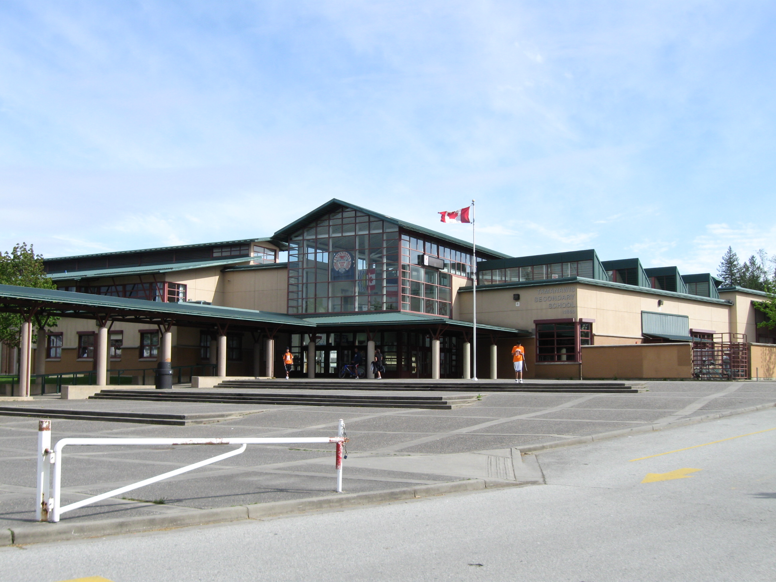 A slightly southeast facing view of the front entrance to Tamanawis Secondary school at 12600 66 Avenue in Surrey, BC, Canada.